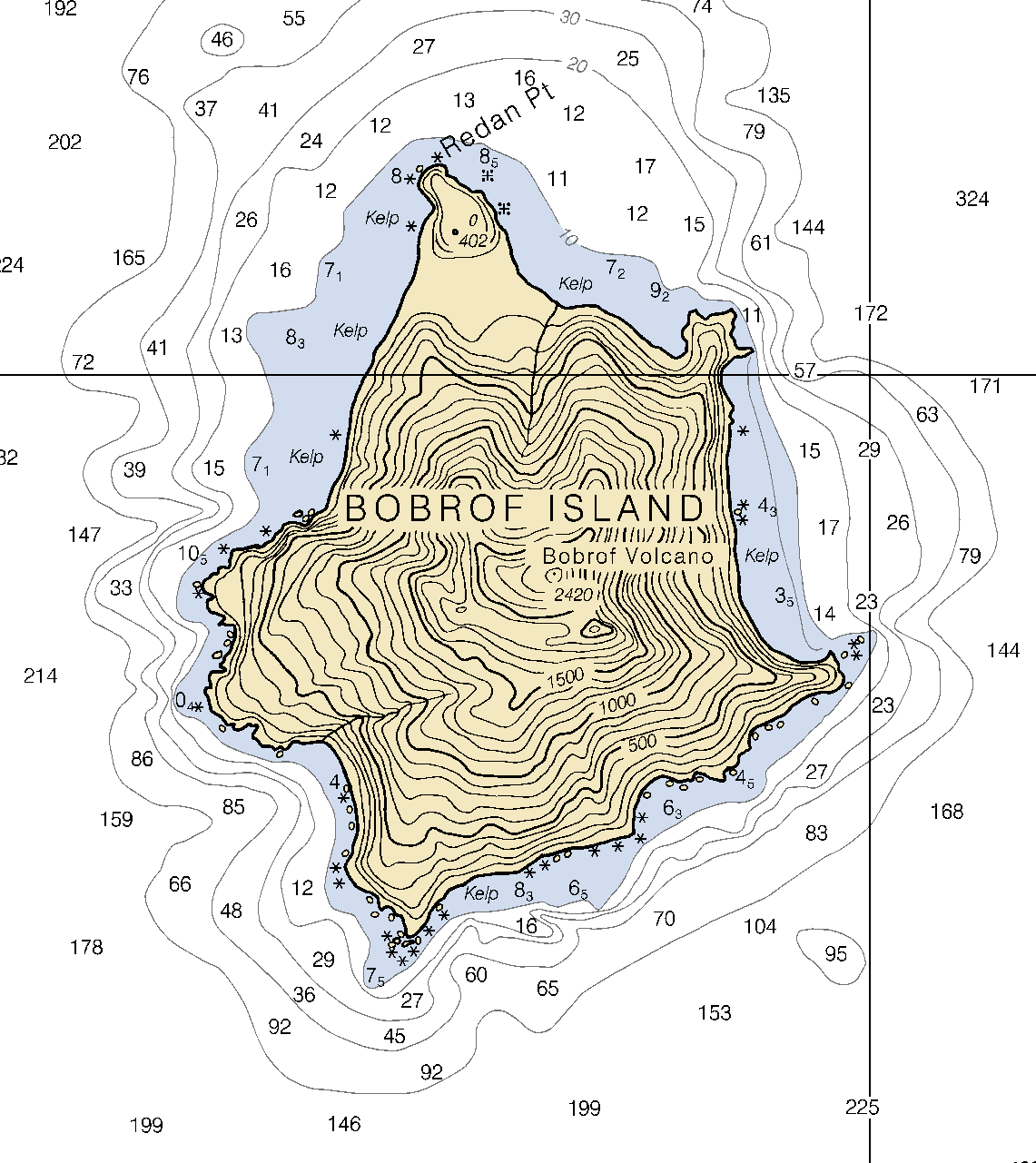 Nautical Chart of Bobrof Island, Aleutians, Alaska